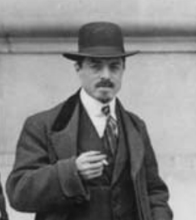 Luigi Russolo, Carlo Carrà, Filippo Tommaso Marinetti, Umberto Boccioni and Gino Severini in front of Le Figaro, Paris, February 9, 1912